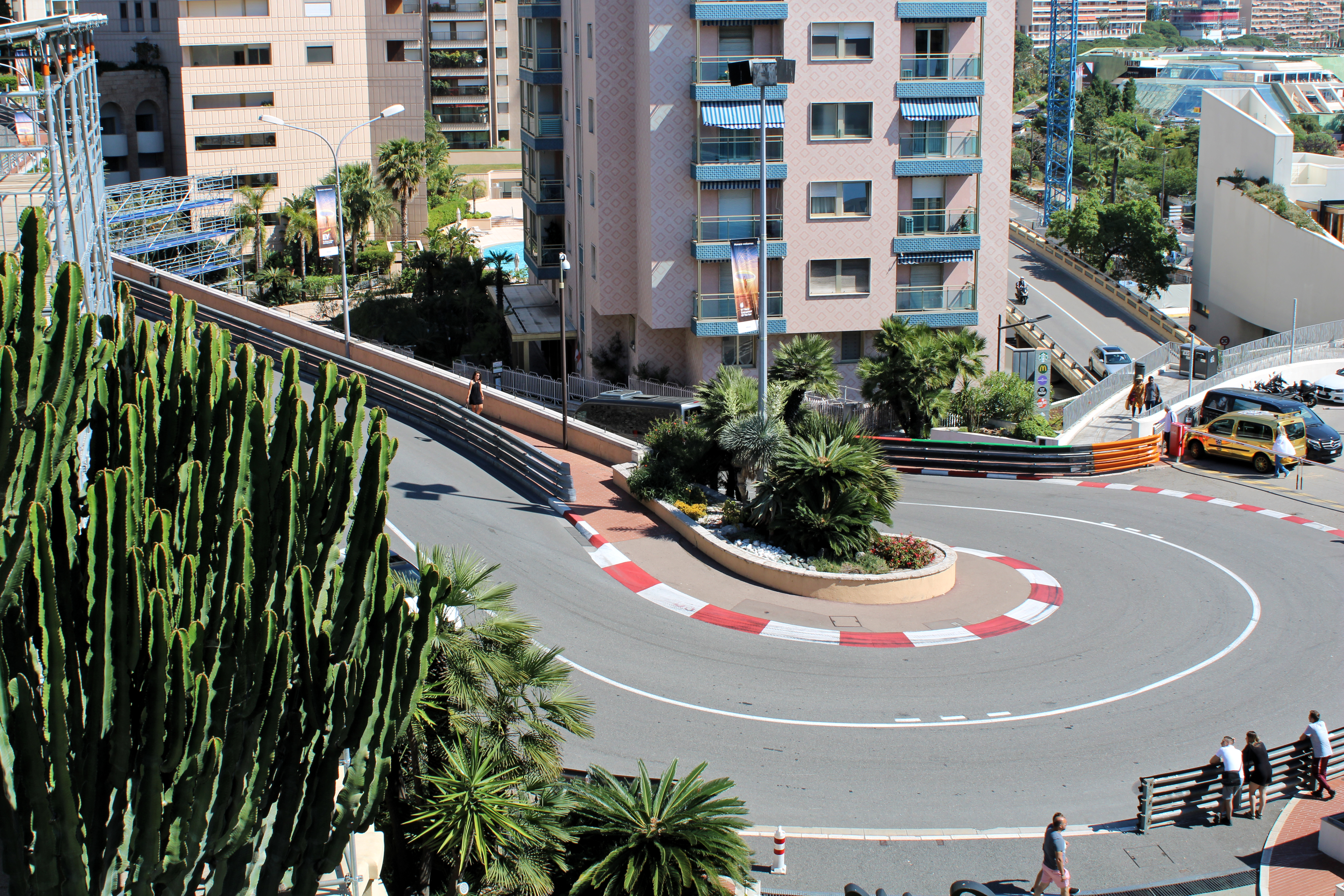 Fairmont Hairpin in Monaco